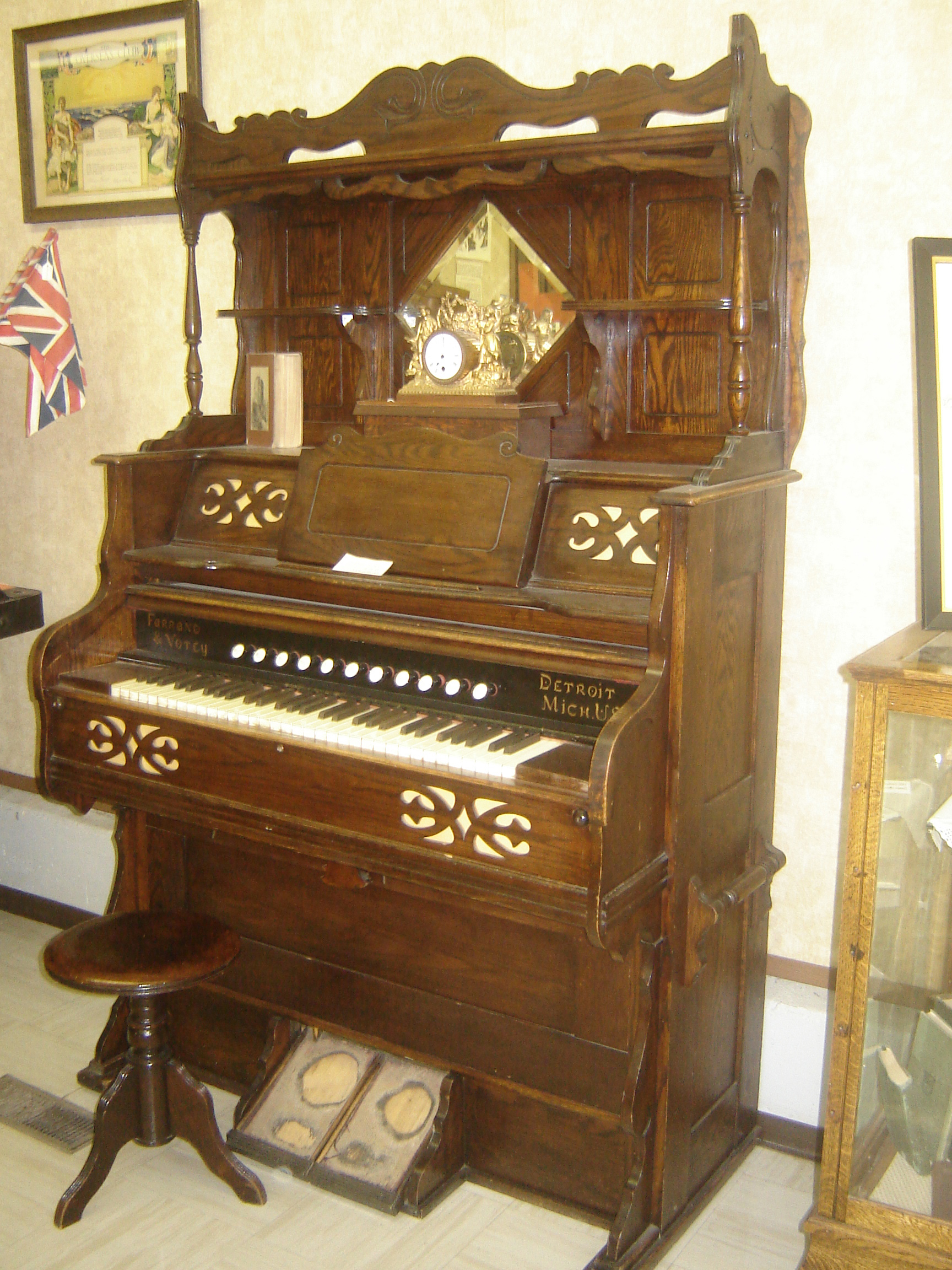 Barr Colony Heritage Cultural Centre: Parlor organ manufactured by Ferrand & Votey Organ Company, Detroit